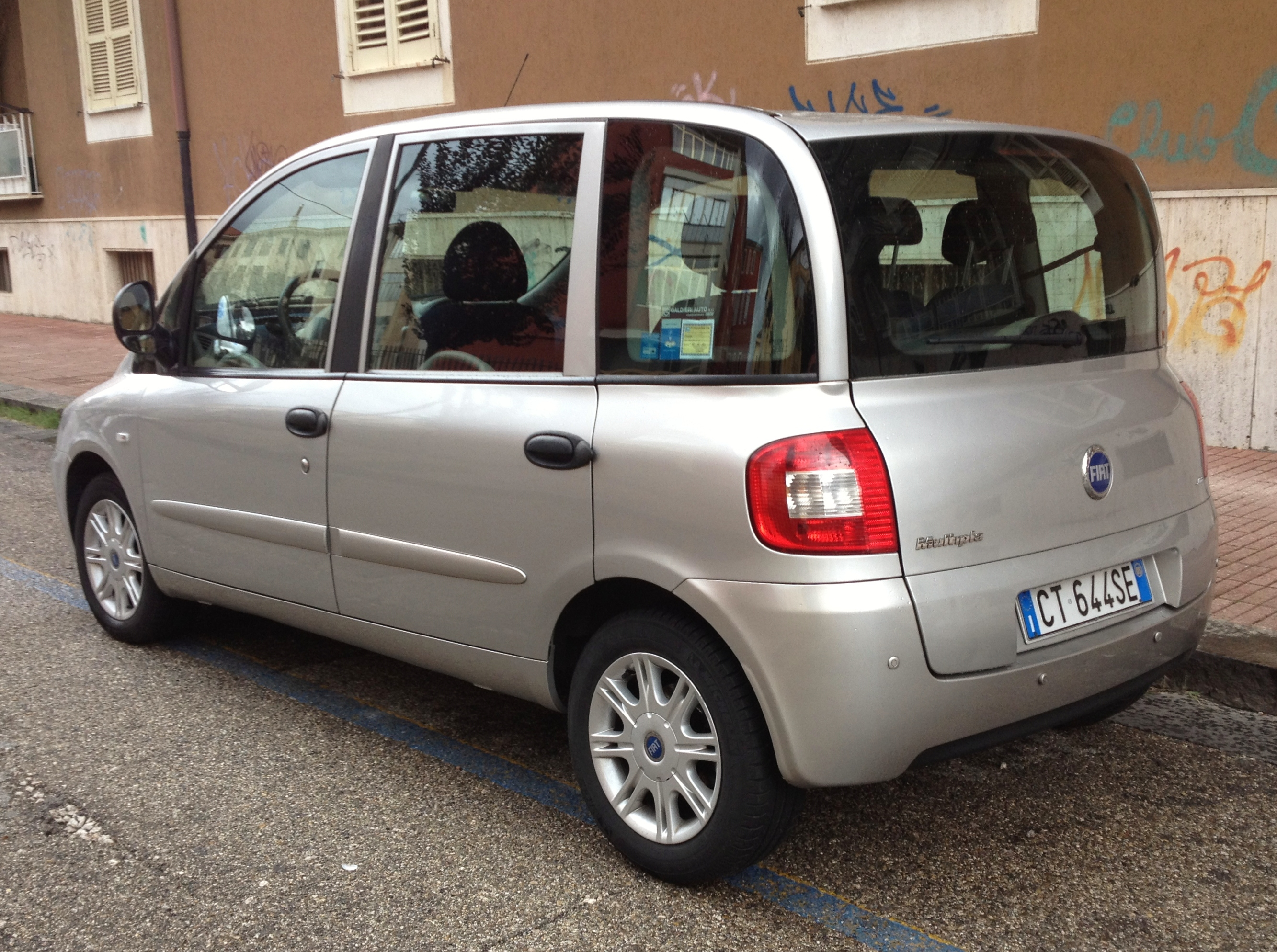 Fiat Multipla in Avellino, Italy